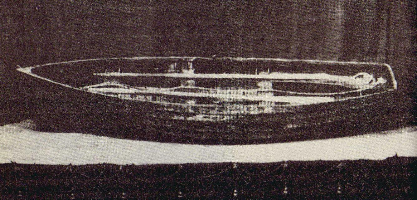 Lifeboat of the English bark Mignonette exhibited in Falmouth in 1884